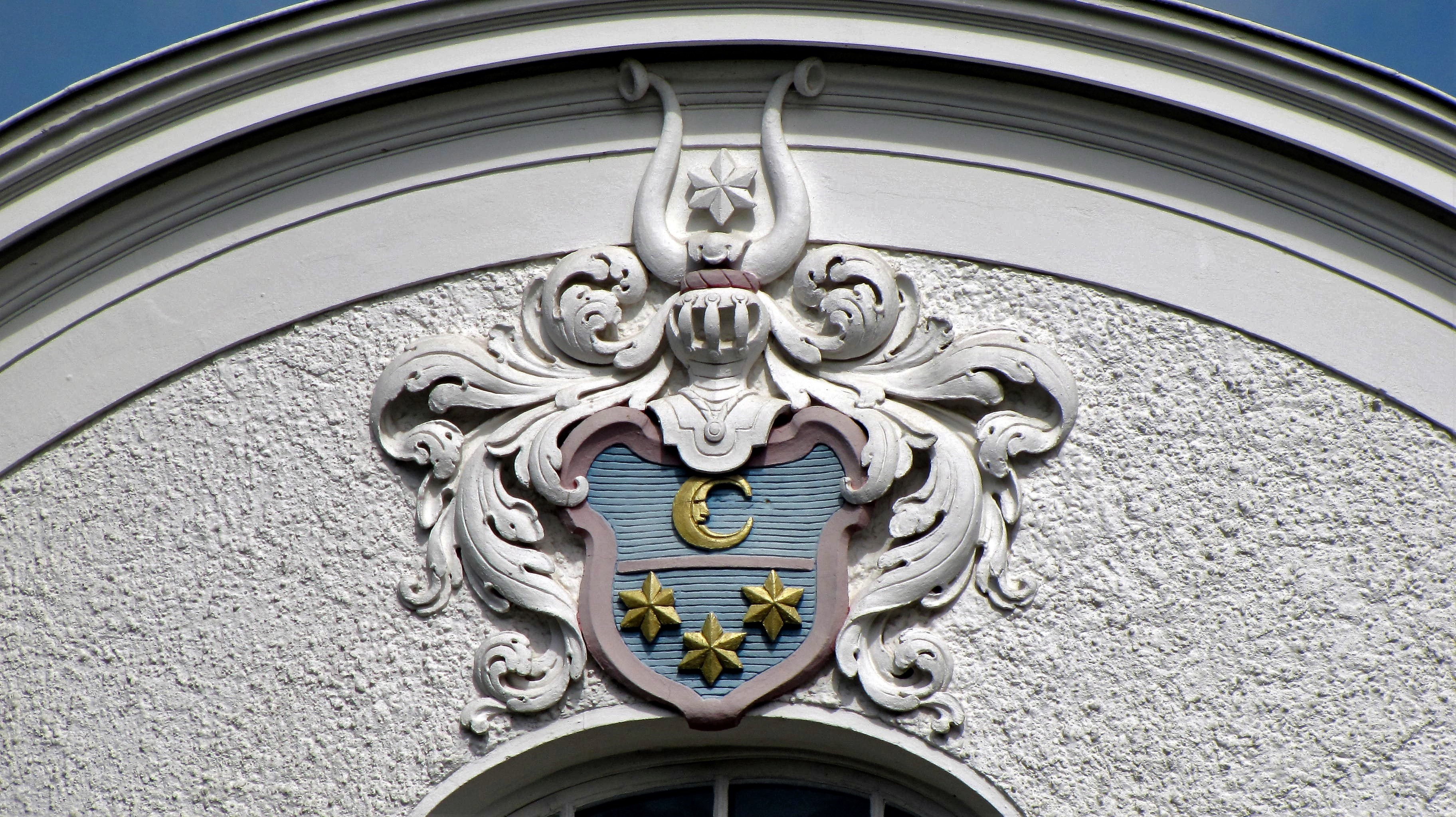 Coat of arms of Kulenkamp family at Eschenburgstrasse 7 in Lübeck